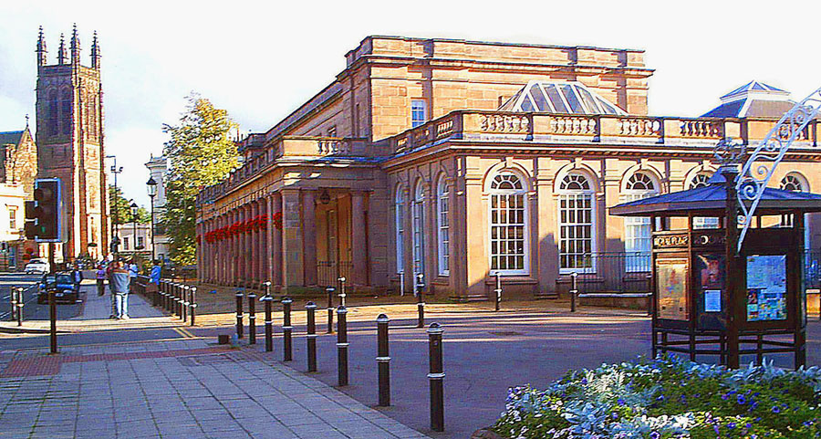 The spa water pumphouse building (on the right) in Leamington Spa which was constructed in 1814. Warwickshire, England.